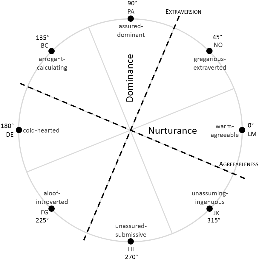 Interpersonal circumplex based on IAS-R with extraversion and agreeableness from big five